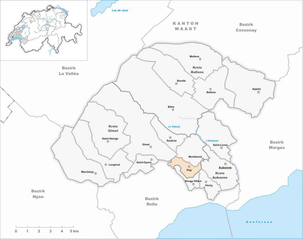 Municipality Pizy